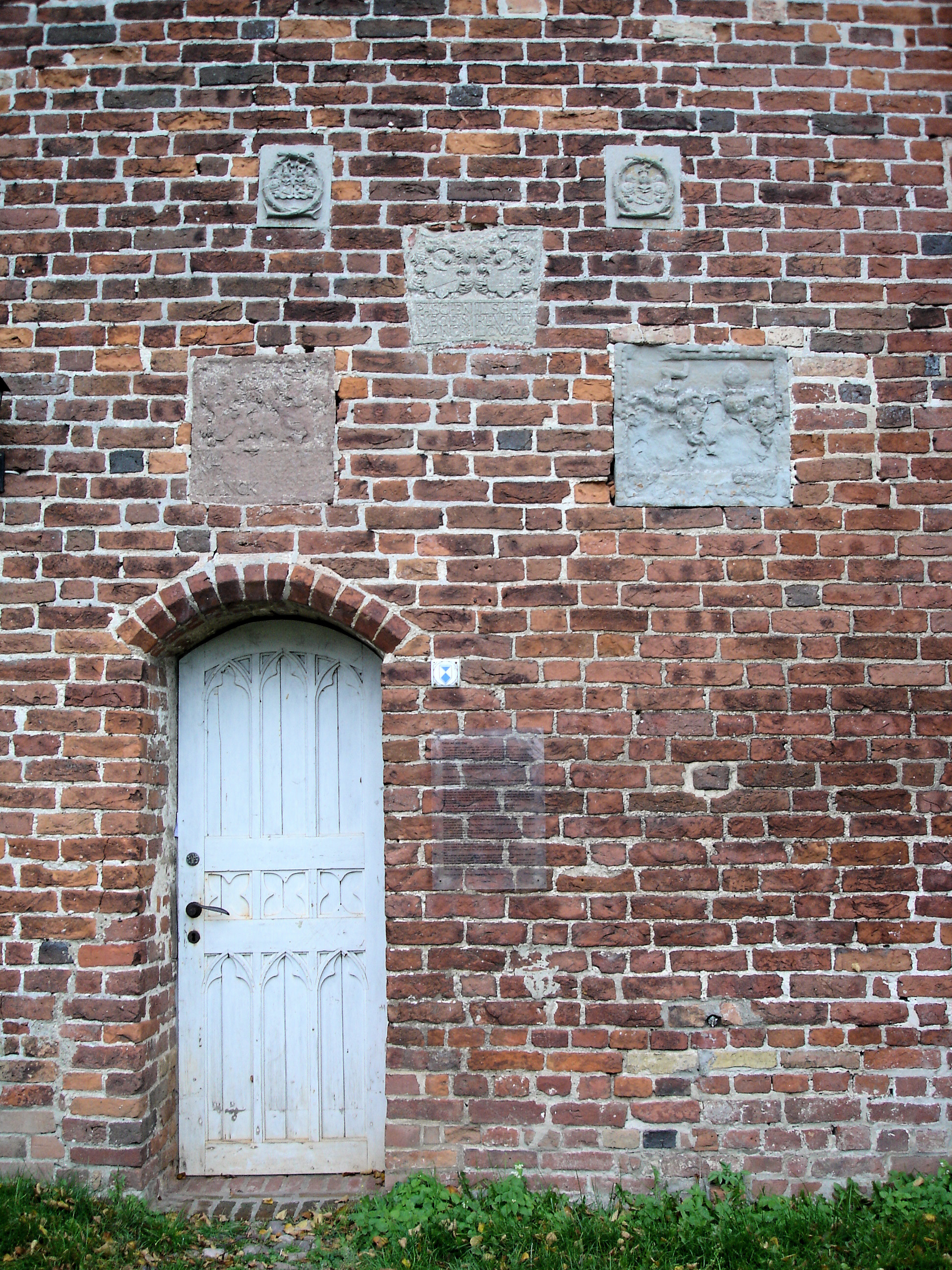 Chapel in Weitendorf, Mecklenburg, Germany